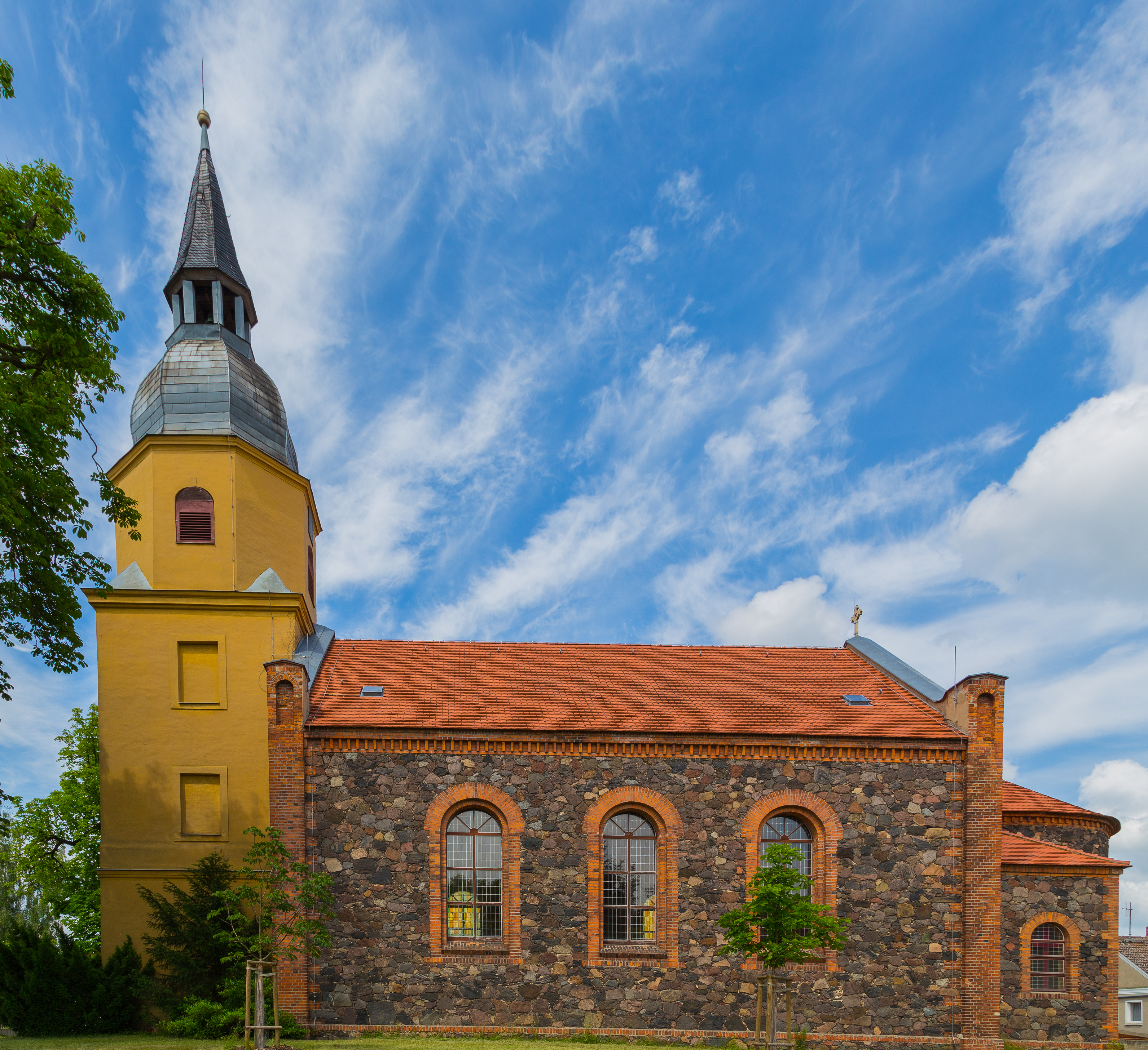 Die Evangelische Dorfkirche von Groß Leuthen, Ortsteil der Gemeinde Märkische Heide, Landkreis Dahme-Spreewald, Brandenburg, Deutschland. Die Kirche gehört zum Sprengel Groß Leuthen innerhalb des Evangelischen Kirchenkreises Niederlausitz.